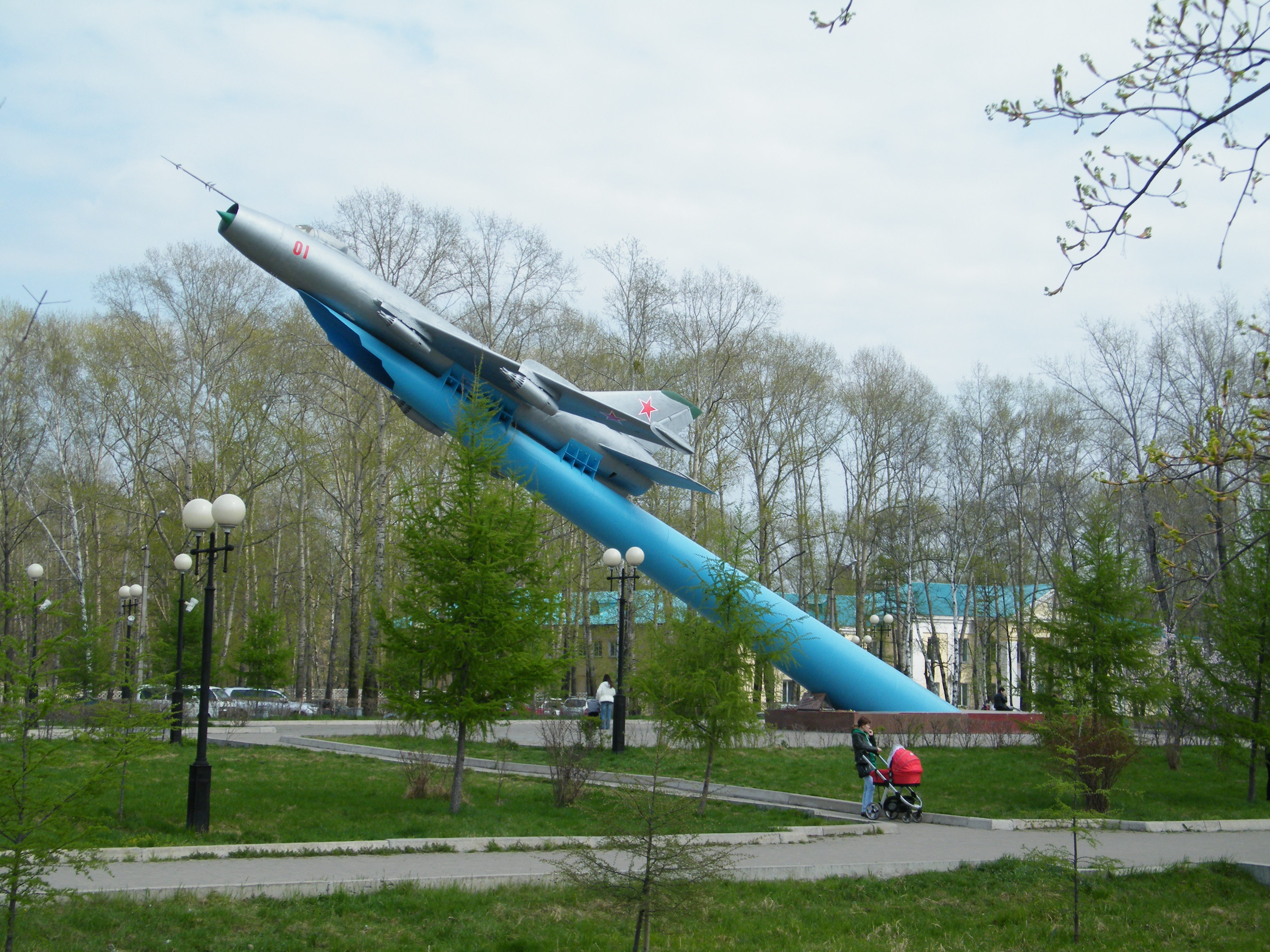 Самолет-памятник в Хабаровске